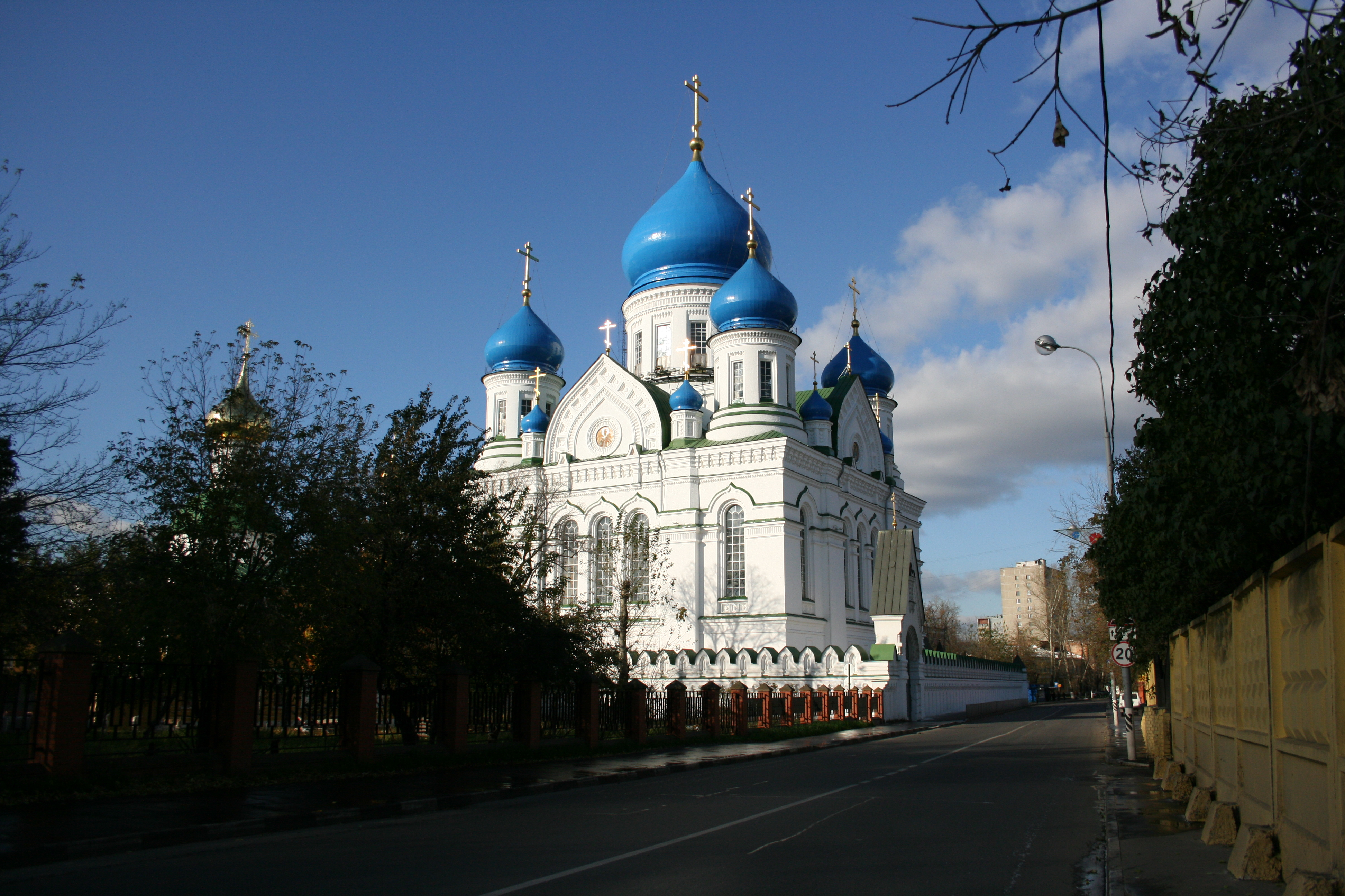 Iversky temple of Nikolo-Perervinsky Monastery